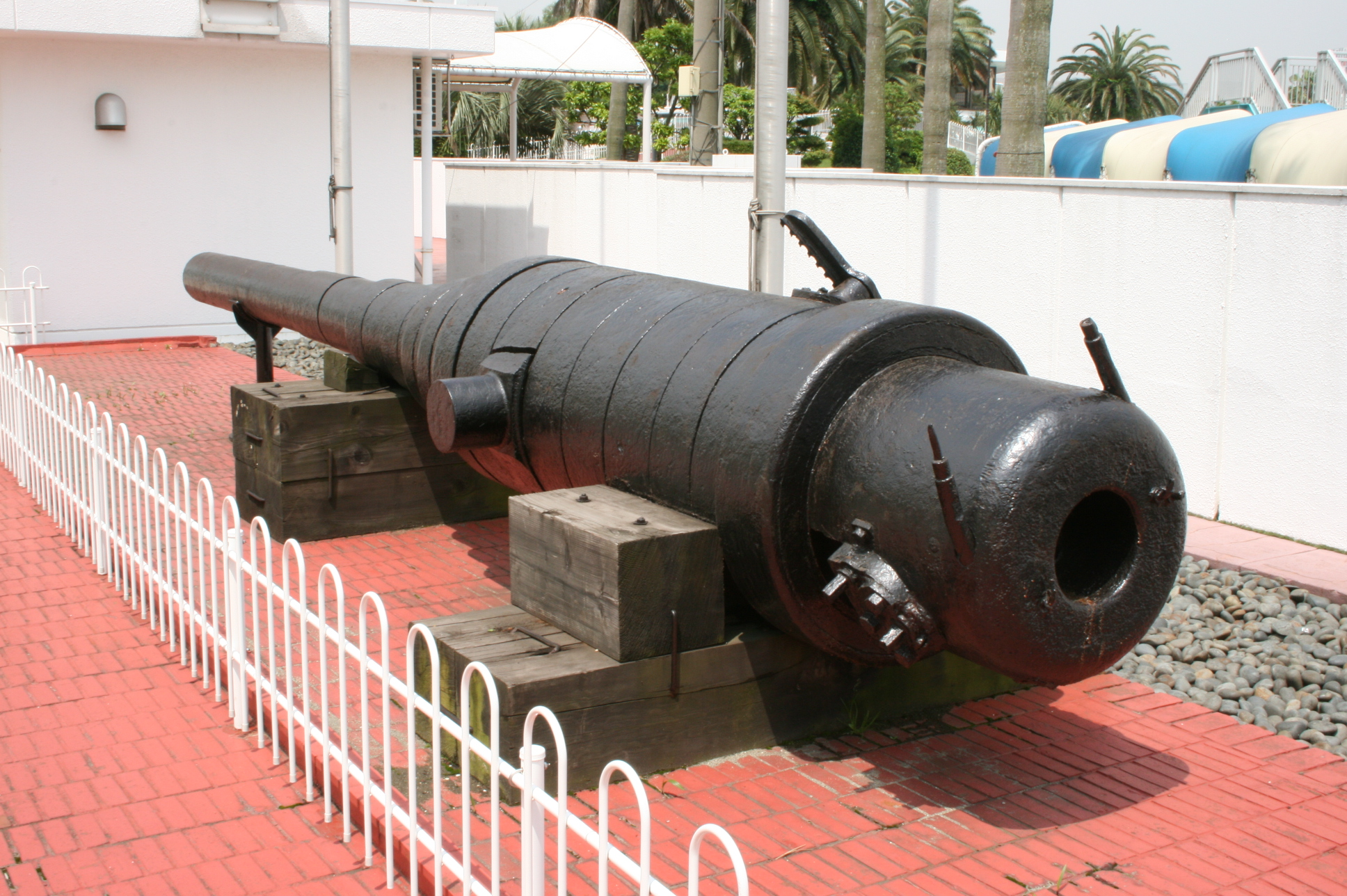 Naval guns used by a russian cruiser Admiral Nakhimov in the Museum of Maritime Science, Tokyo